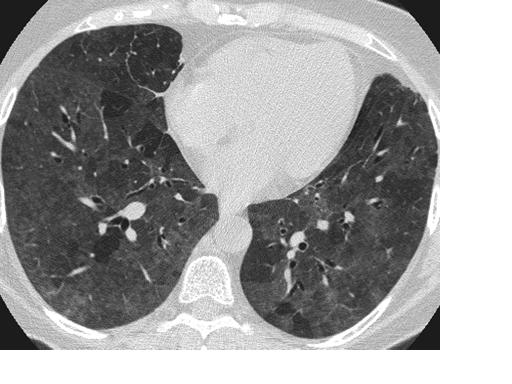 High-resolution CT: increase in density in areas of ground glass and air trapping in lower lobes in patients with hypersensitivity pneumonitis